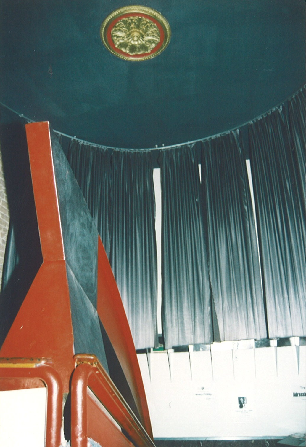 Monte Foyer 1999